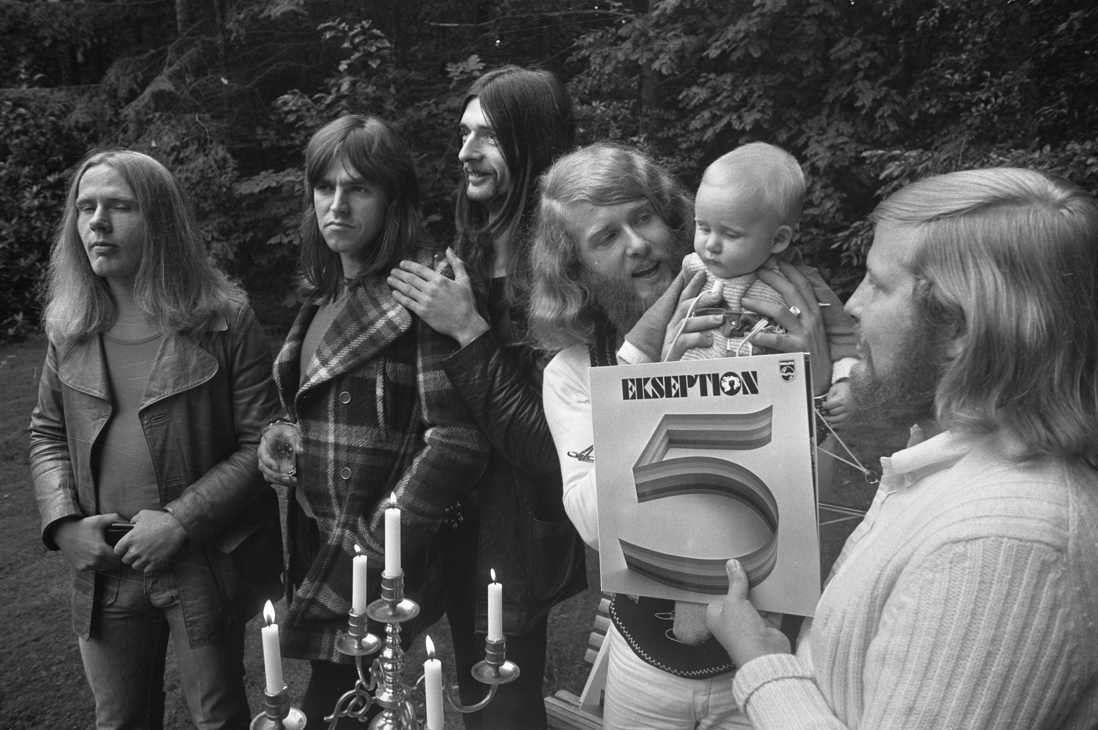 Presentation of the new LP Ekseption (5). Rick van der Linden (right) with his son (who sings along in the song "My son") and other members of the band. September 11, 1972